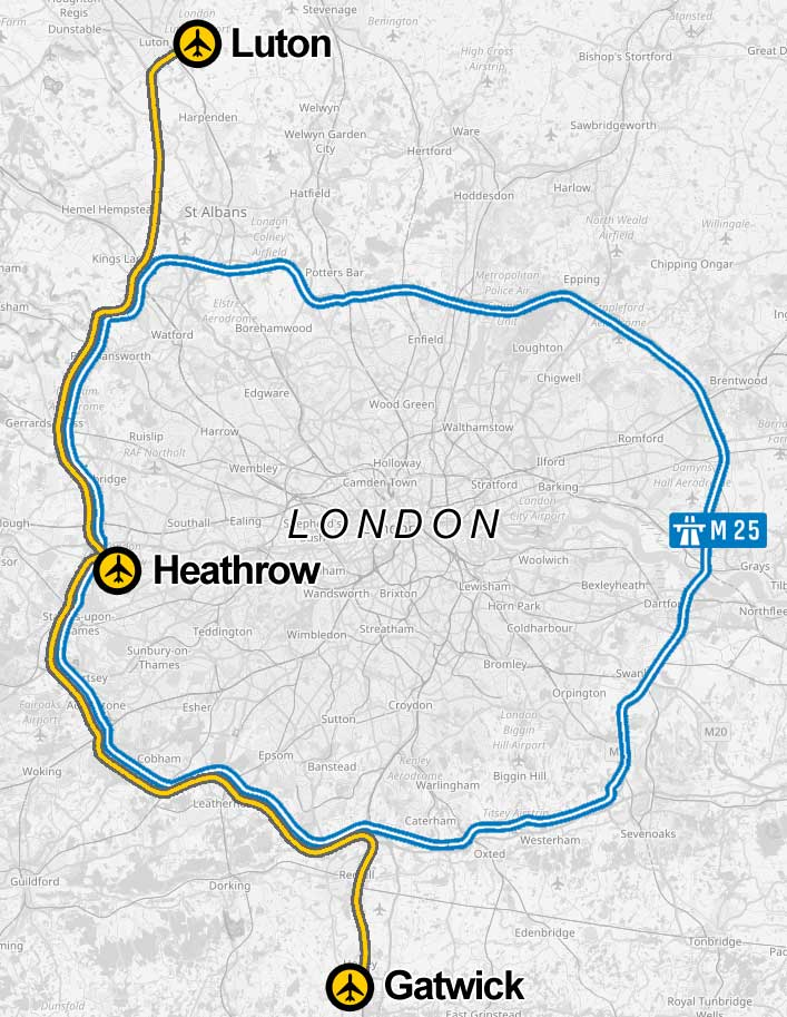 Map of the approximate route of a proposed Luton-Heathrow-Gatwick railway link around London, UK This map may be incomplete, and may contain errors. Don't rely solely on it for navigation.